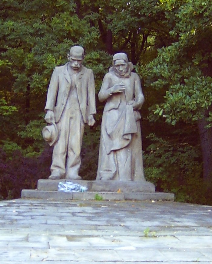 Memorial to more than 140 victims of 1934 colliery disaster in Osek near Duchcov, Czech Republic.